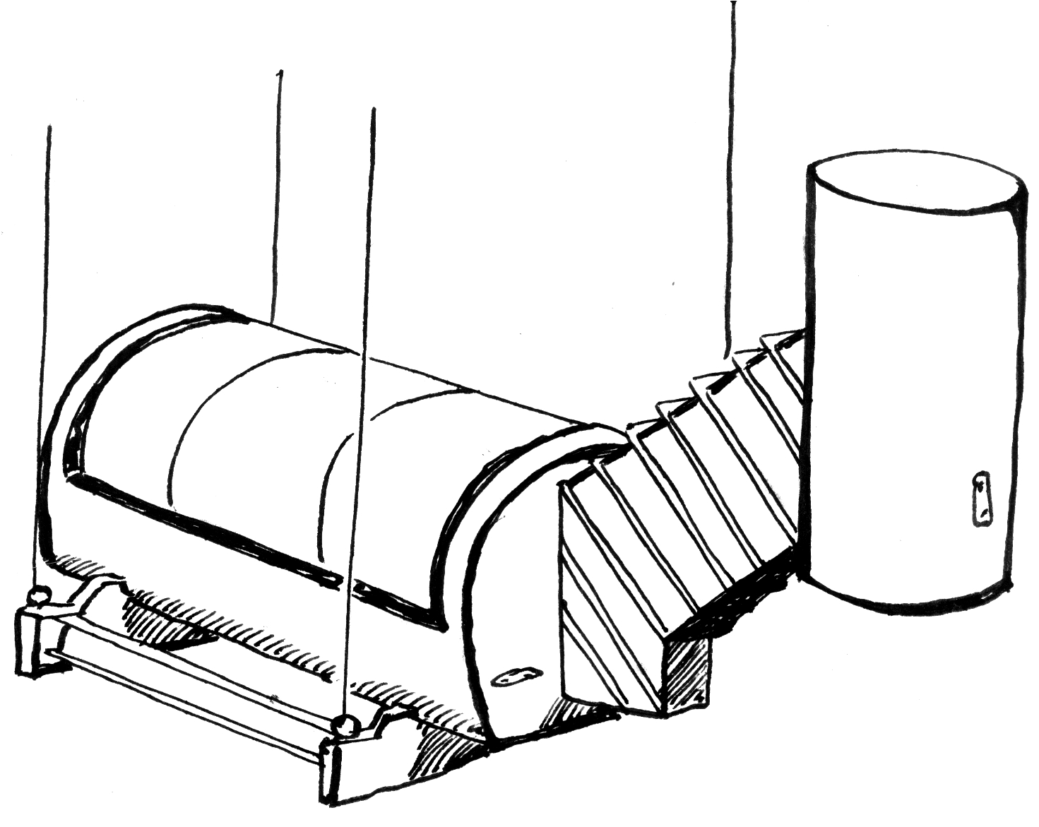 This image is a drawing of the Undersea Restaurant Ithaa based on comparison of several footage photos.